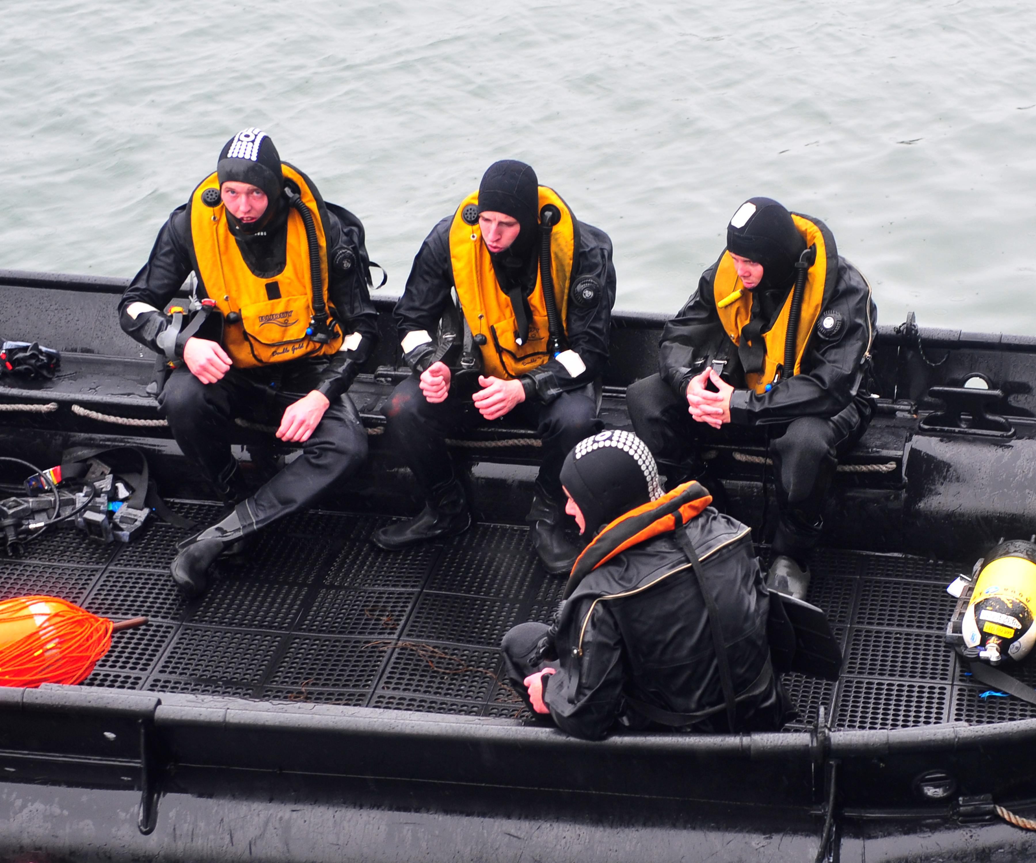 Naval Service Dive Team